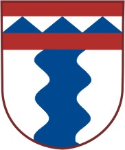 Studánka (Tachov) CoA CZ